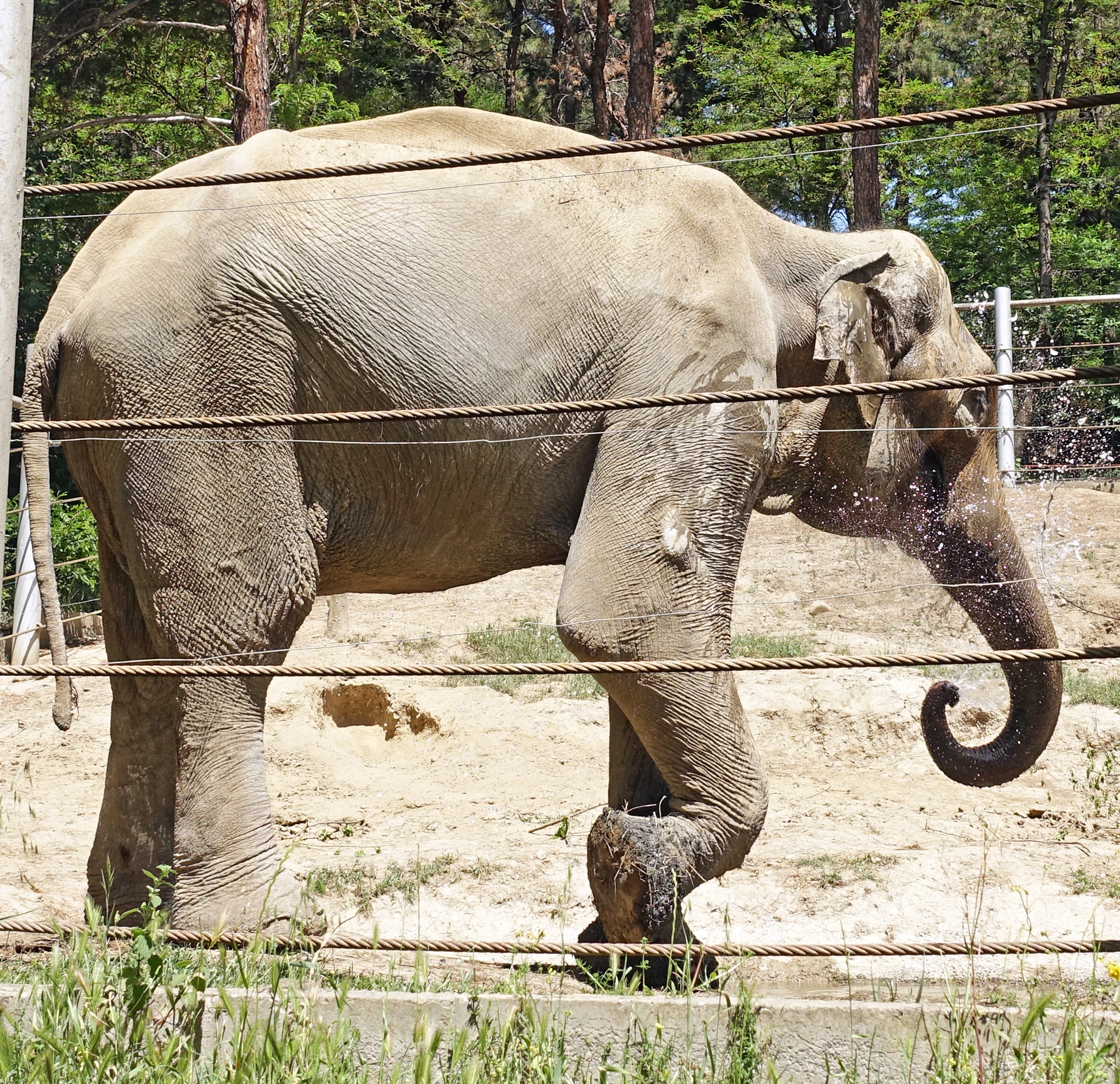 Tbilisi Zoo, Georgia.